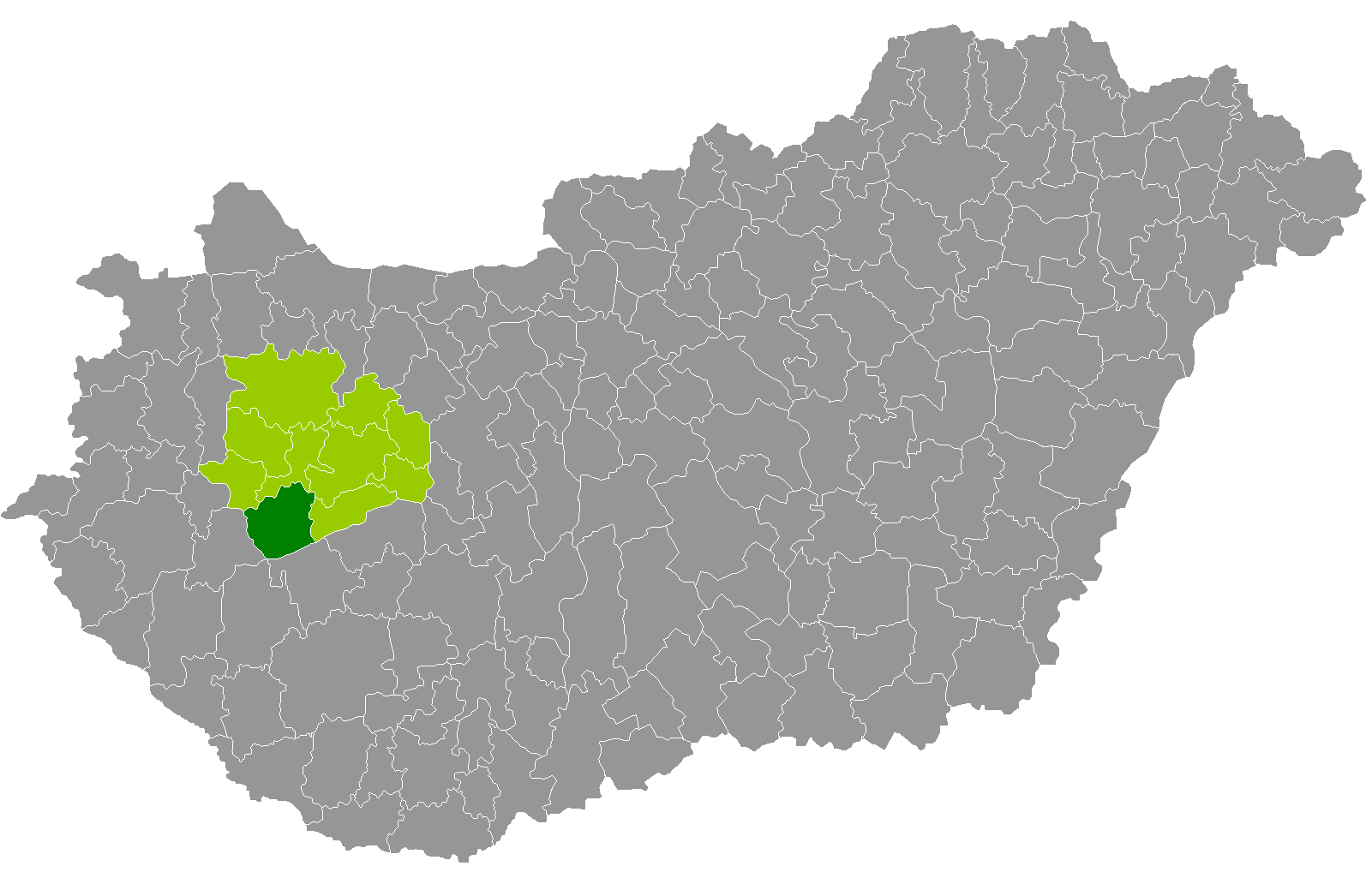 Location of Tapolca District, Veszprém, Hungary